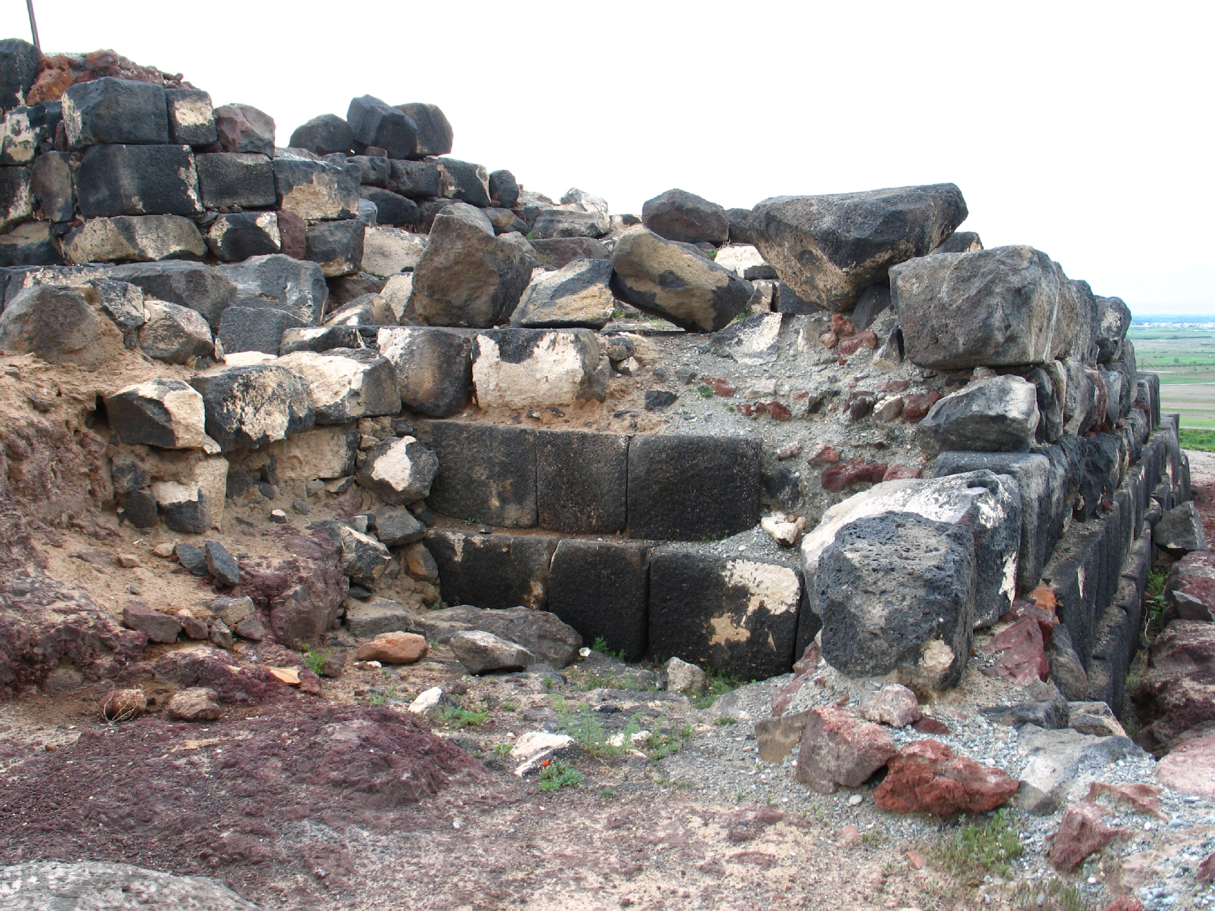 Արմավիրի հնավայր 71/1